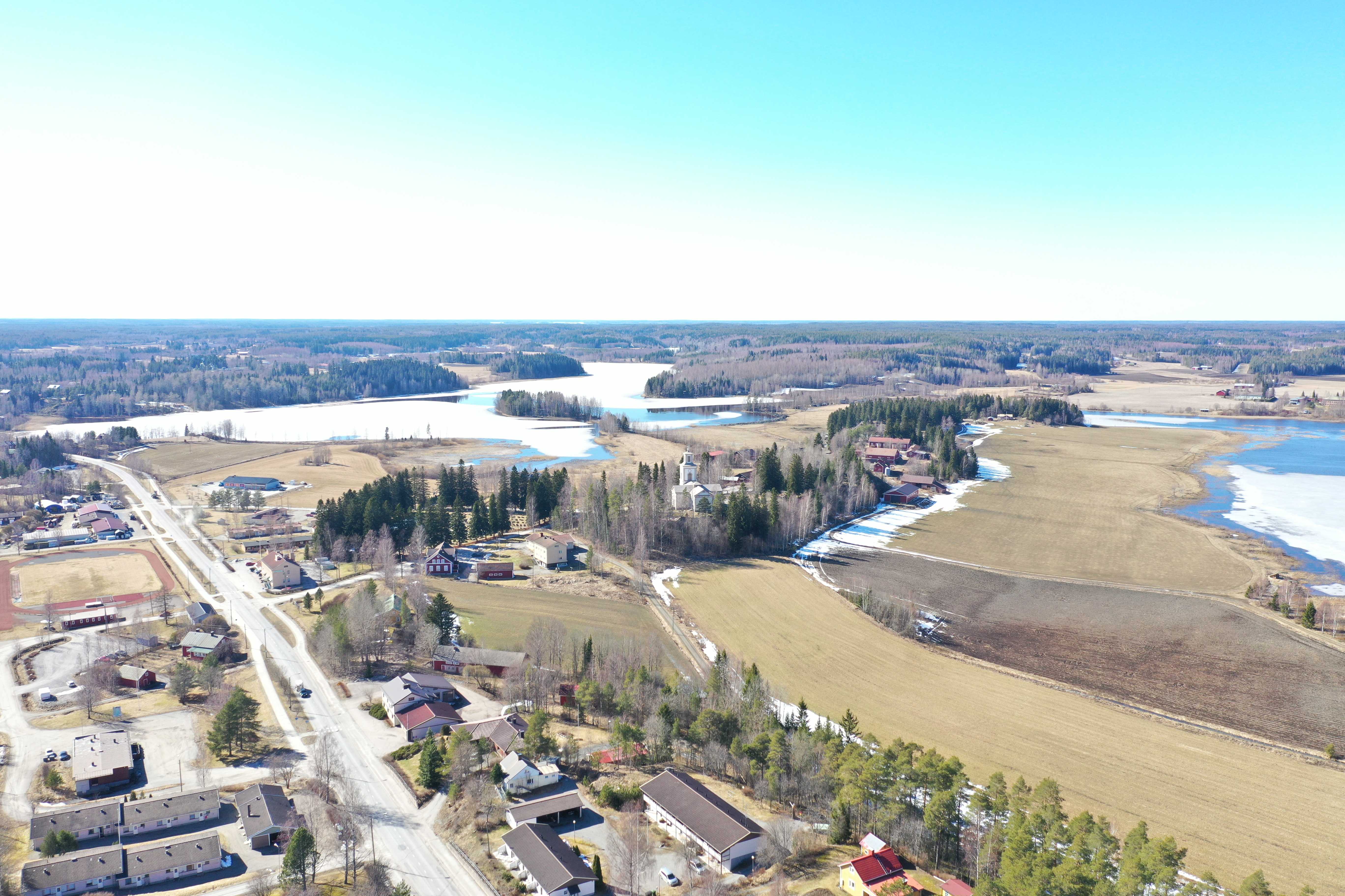 Pohjakylä village in Suodenniemi, Finland